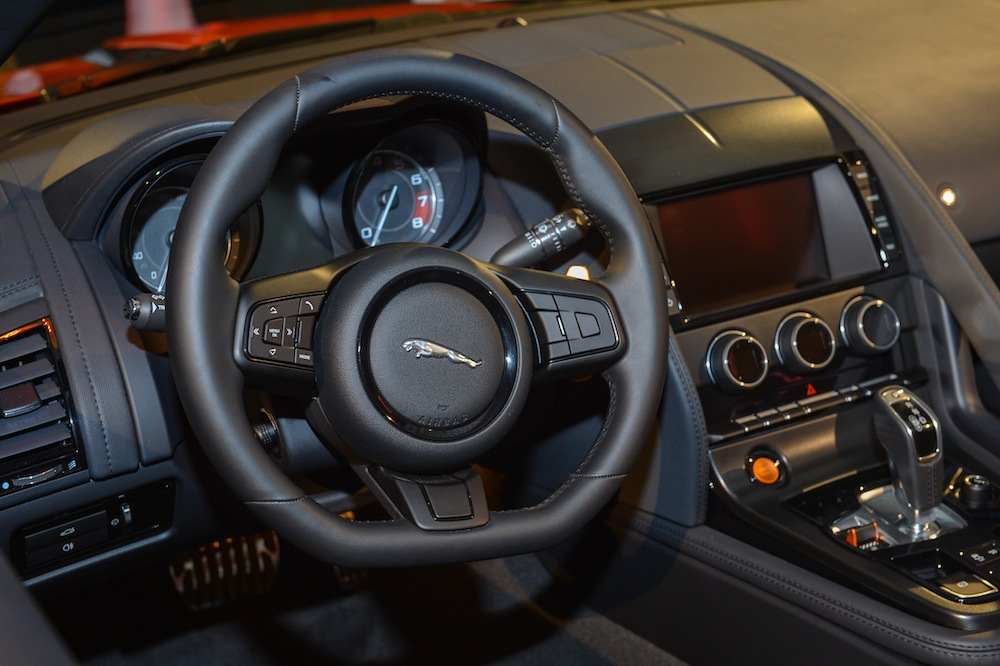 Al Tayer Motors, one of the UAE’s premier automobile dealerships and the official importer-dealer for Jaguar and Land Rover vehicles, unveiled one of the luxury automotive manufacturer’s most anticipated models to date – the Jaguar F-TYPE, in Dubai. Explore more here